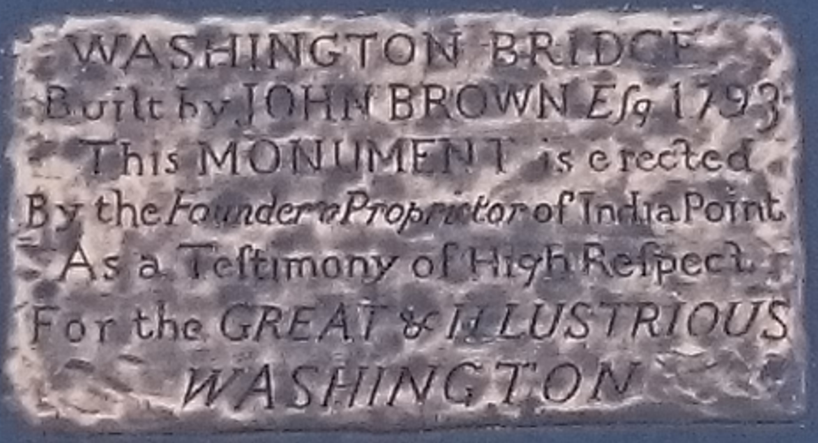 Replica of inscription from the 1793 Washington Bridge, Providence, RI appearing on the southeast plaque of the remaining portion of the 1930 bridge